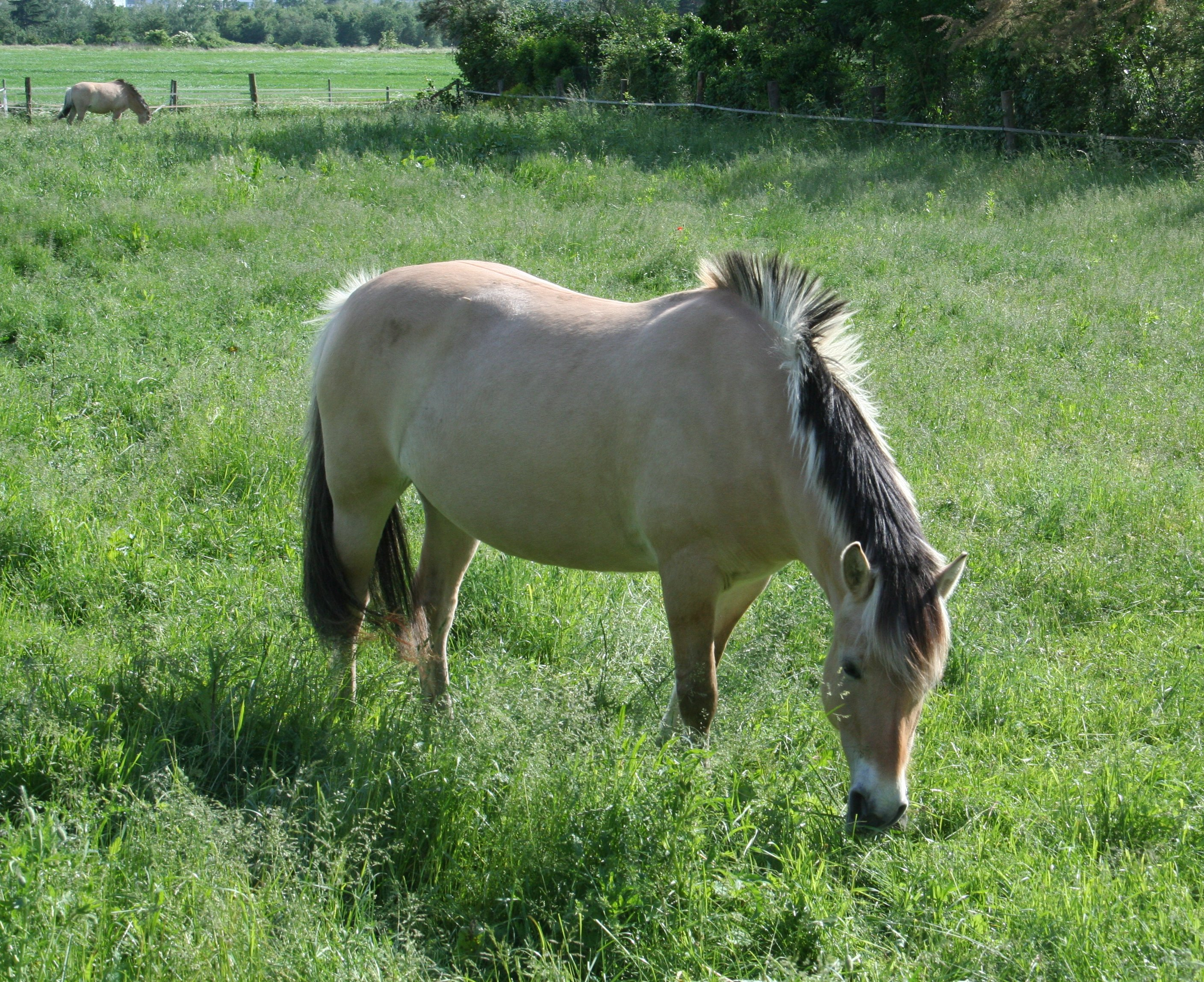 Fjord horses in the Schwanheimer Düne (dune of Schwanheim)